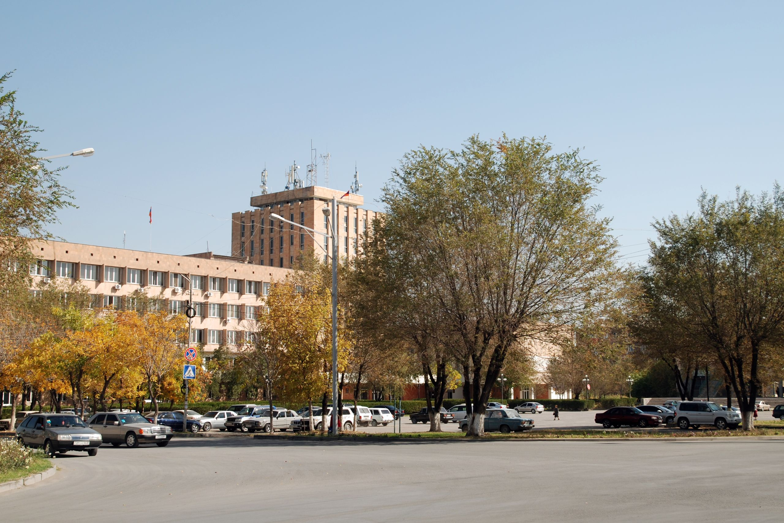 Artashat, center